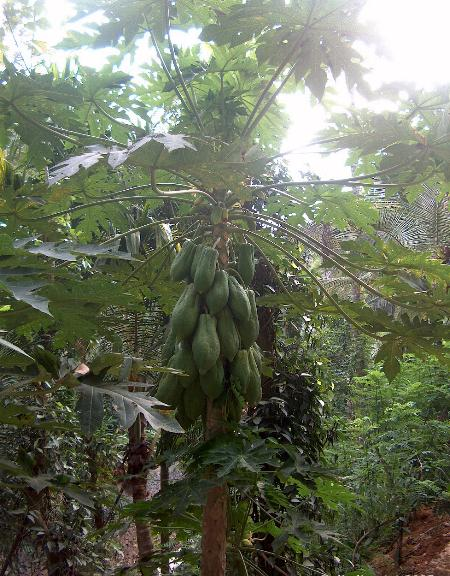 Carica papaya: Habit with fruits. Photographer: Mette Nielsen